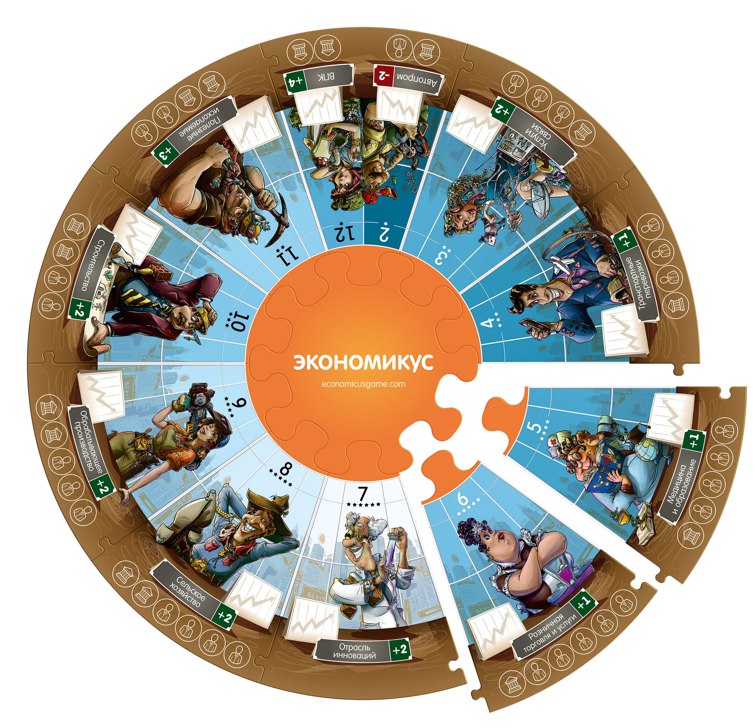 Modular board of the board game "Economicus"